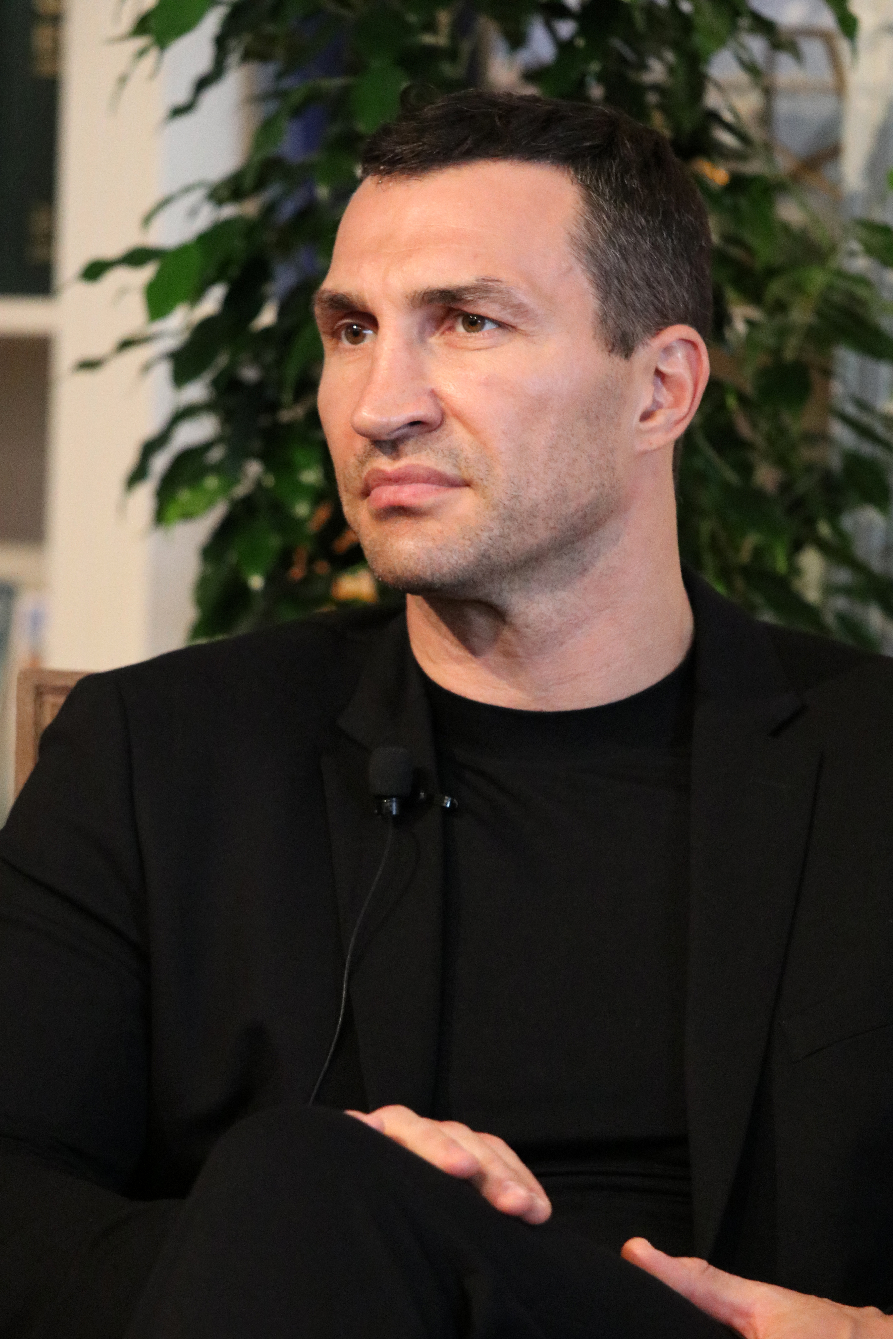 Wladimir Klitschko at the 2018 Global Education and Skills Forum in Dubai.